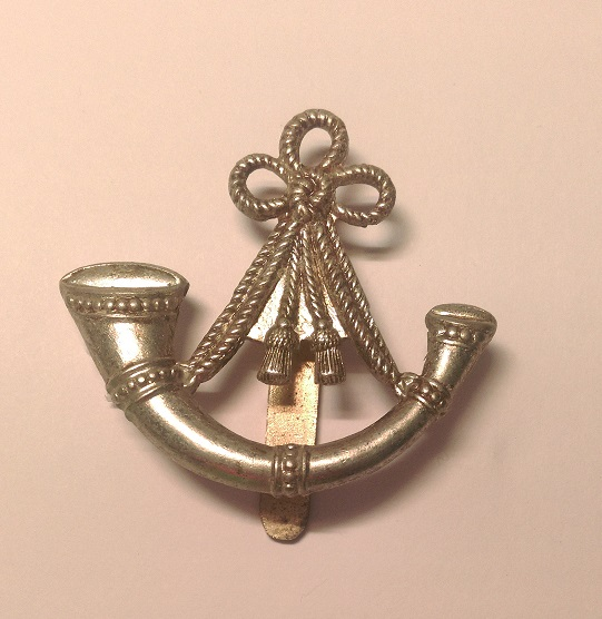 Photo of Oxfordshire and Buckinghamshire Light Infantry Cap Badge from personal collection